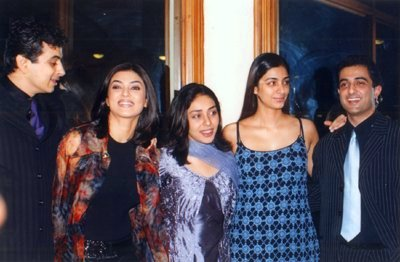 The cast of the 2001 movie Filhaal at the audio release of the film